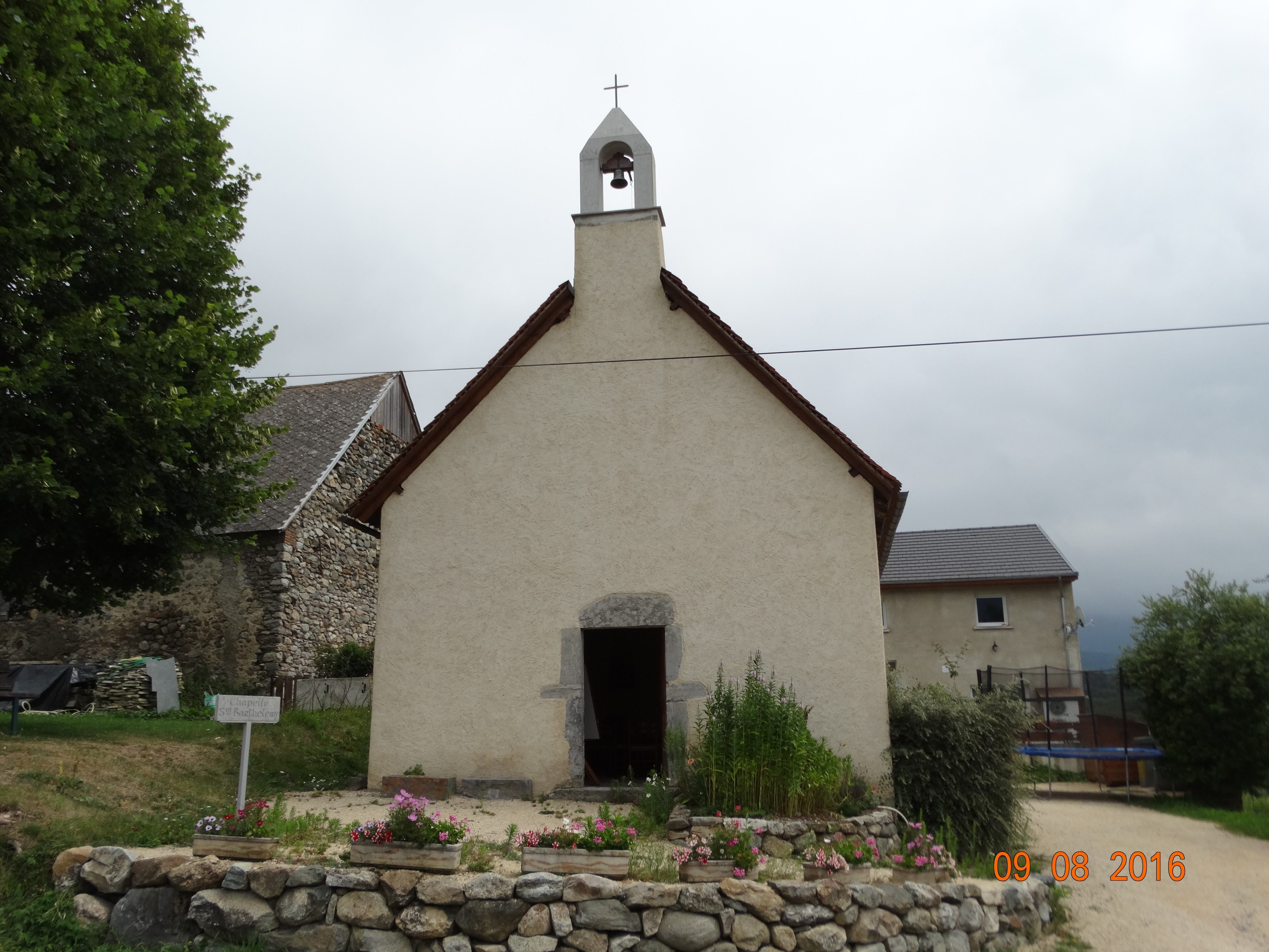 Chapelle St Barthelemy